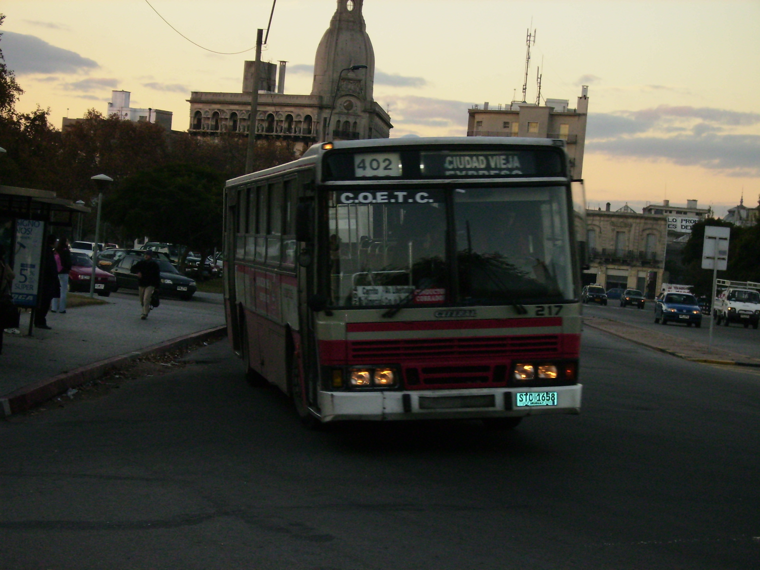 Citybus in Montevideo, Uruguay